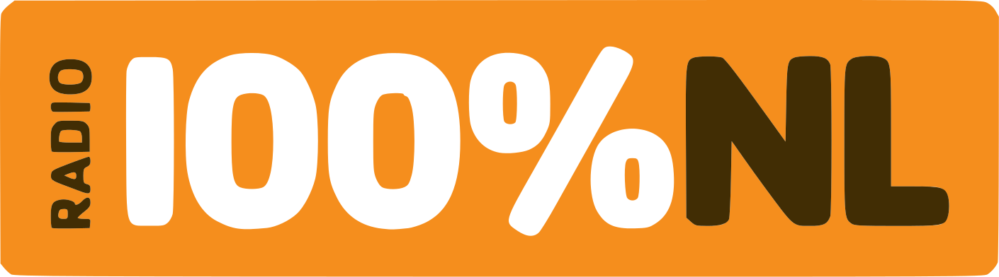 Logo of the Dutch radio station 100% NL